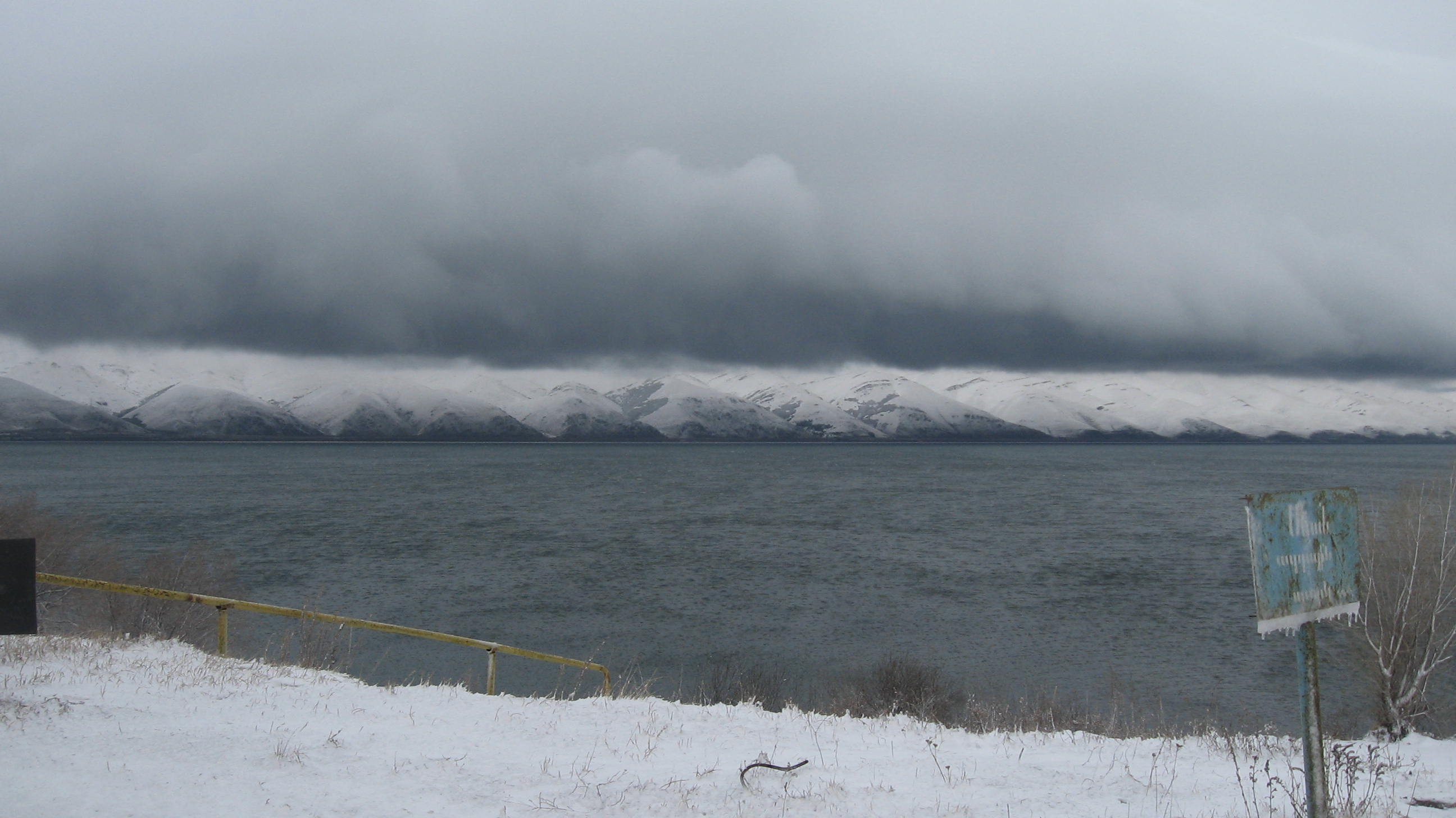 Lake Sevan